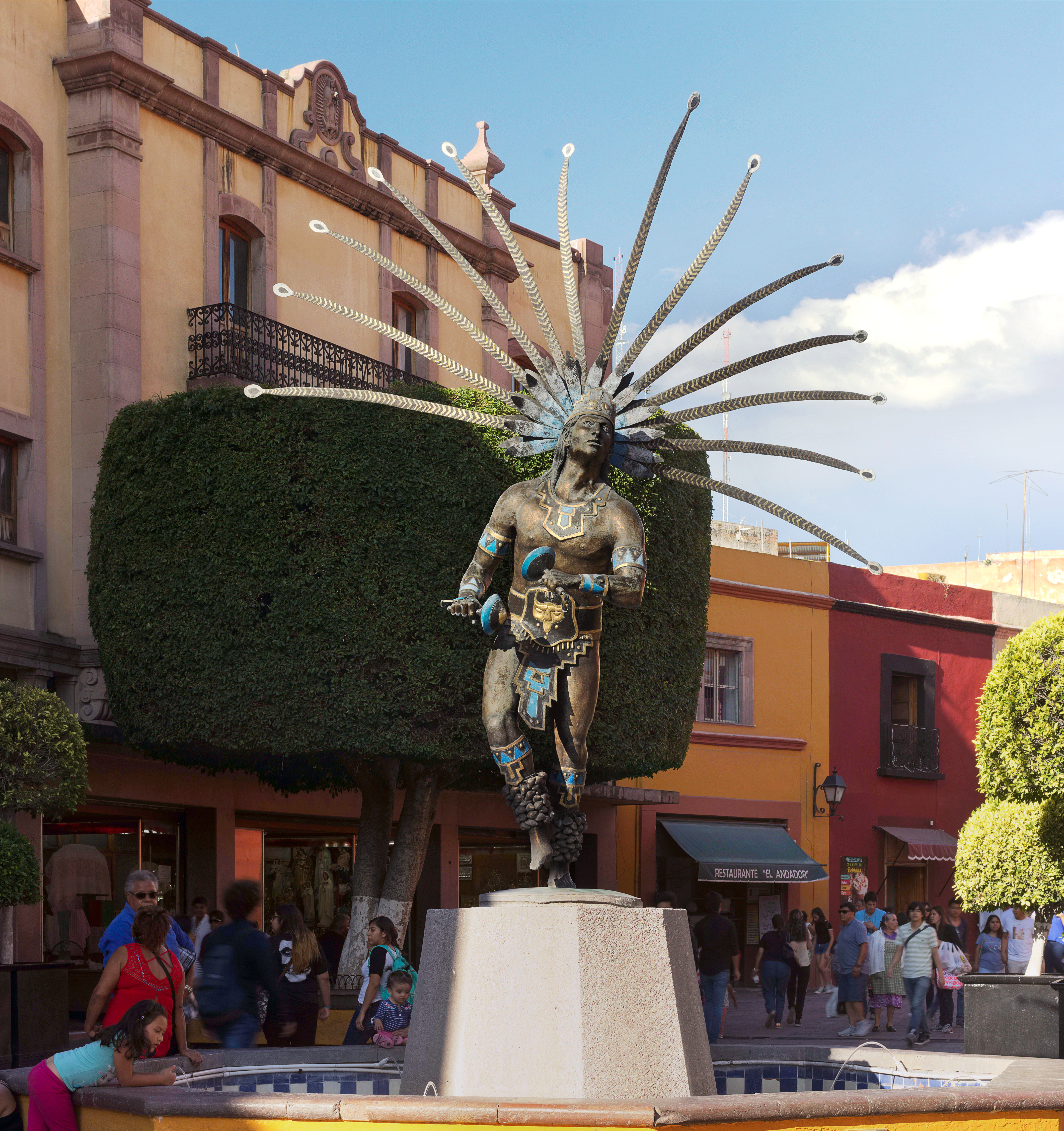 "El Danzante" (The Dancer), Sculpture by Juan Velasco y Perdomo, Queretaro